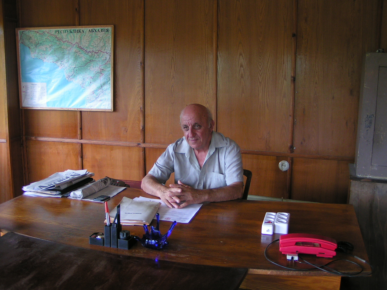 Aleksandr Kharazia, director of Sukhumi trolleybus depot. 2006